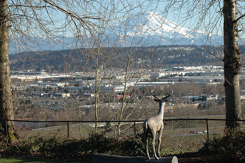 A view from Centennial Viewpoint Park, Auburn, looking towards Mt. Rainier and the Valley floor.